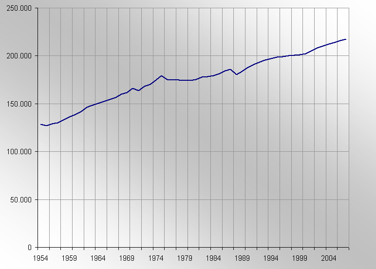 history of population figure